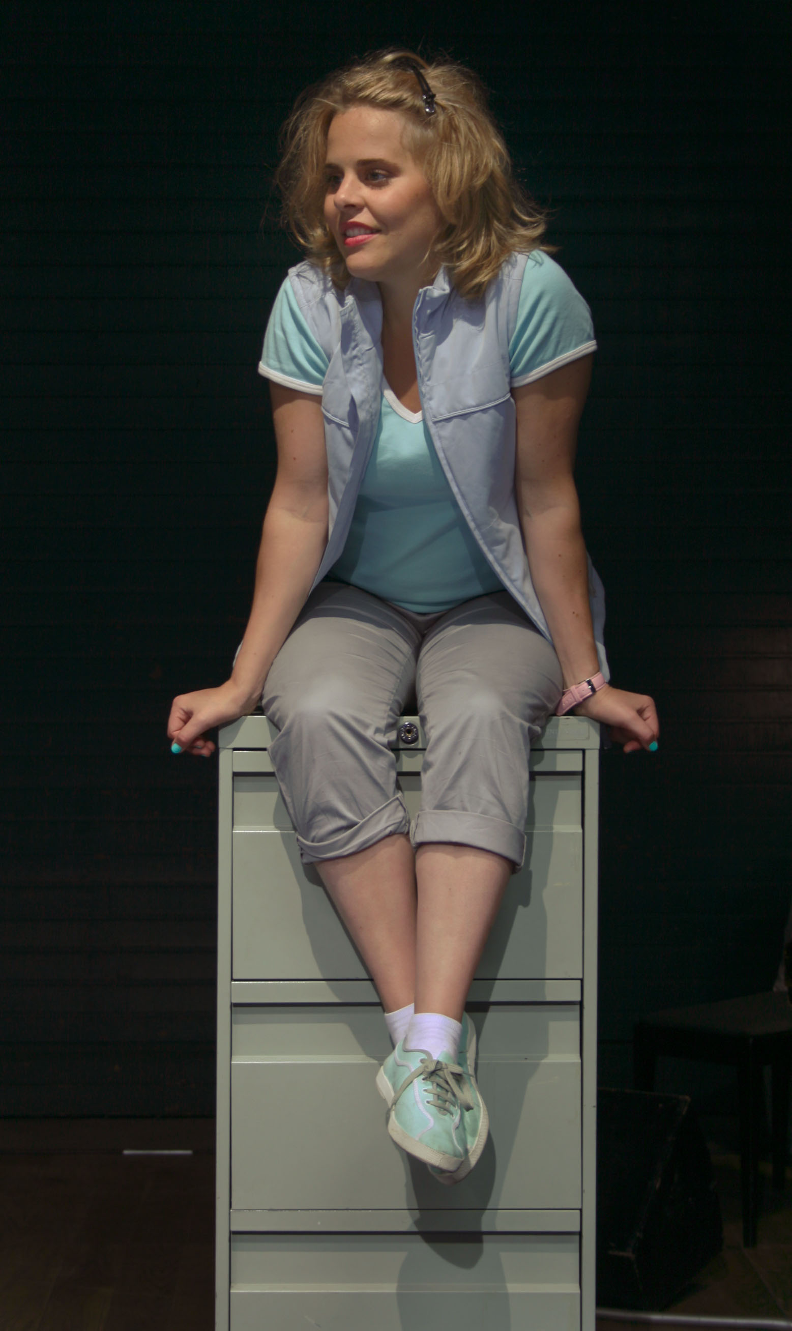 Swedish opera singer Sara Widén